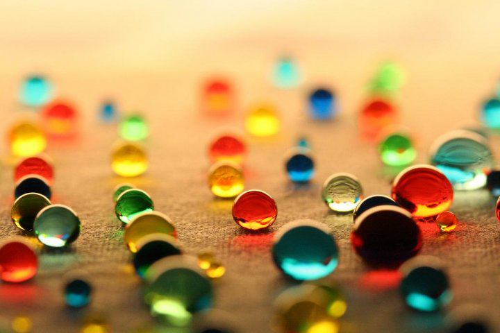 hydrophobic cotton with drops of water